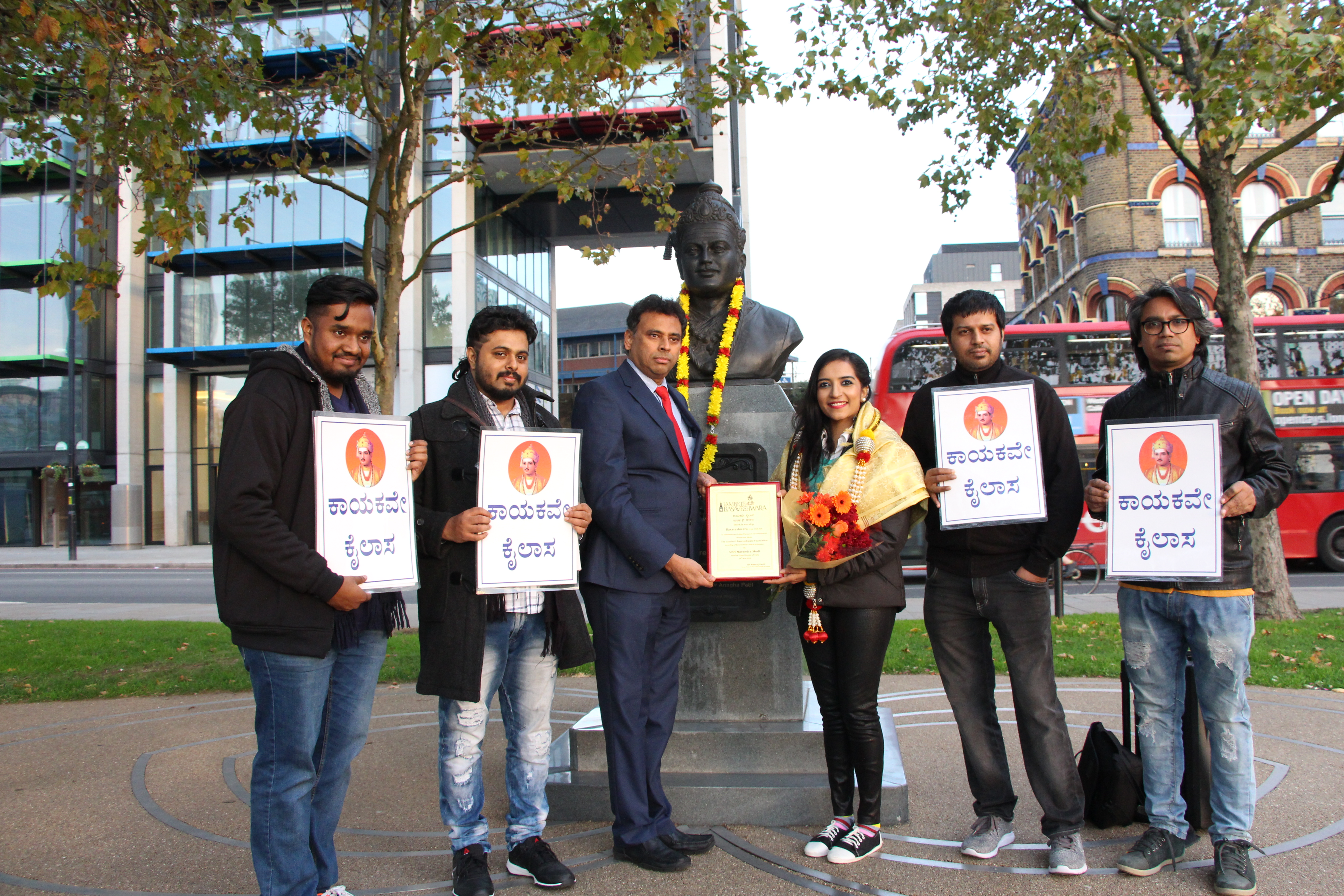 Sangeetha Rajeev receiving the honour by the former mayor of London Borough of Lambeth Dr Neeraj Patil in front of great Basavanna in London.